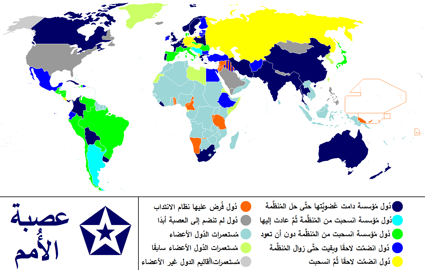 Anachronous map of the world between 1920 and 1945 which shows the The League of Nations and the world. / Carte du monde entre 1920 et 1945 montrant la place de la Société des Nations